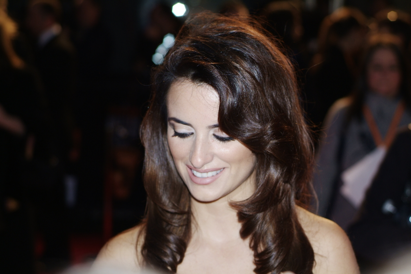 Penélope Cruz in BAFTA 2007. depicted person: Penélope Cruz (age: 32.79)